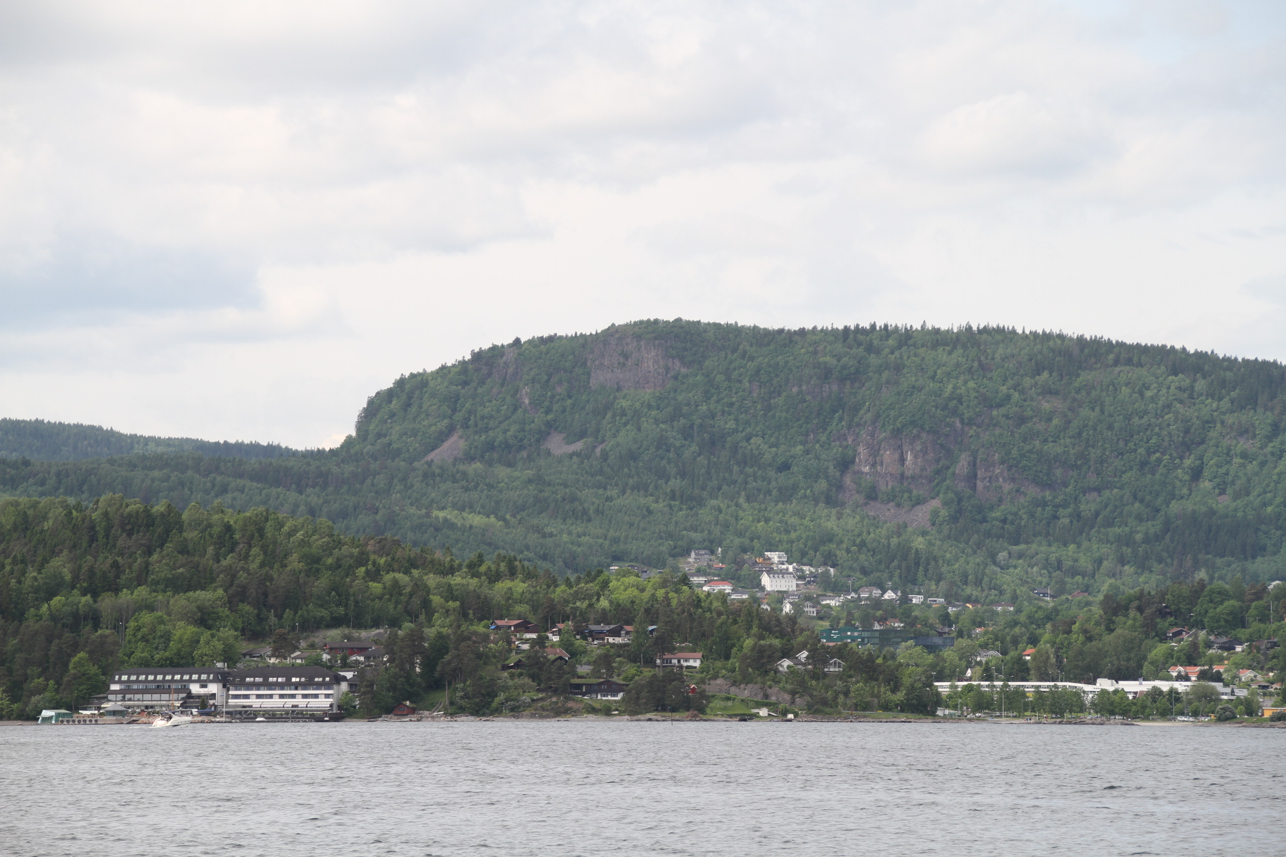 The Skaugumaasen mountain, Asker, as seen from the Oslo fjord.